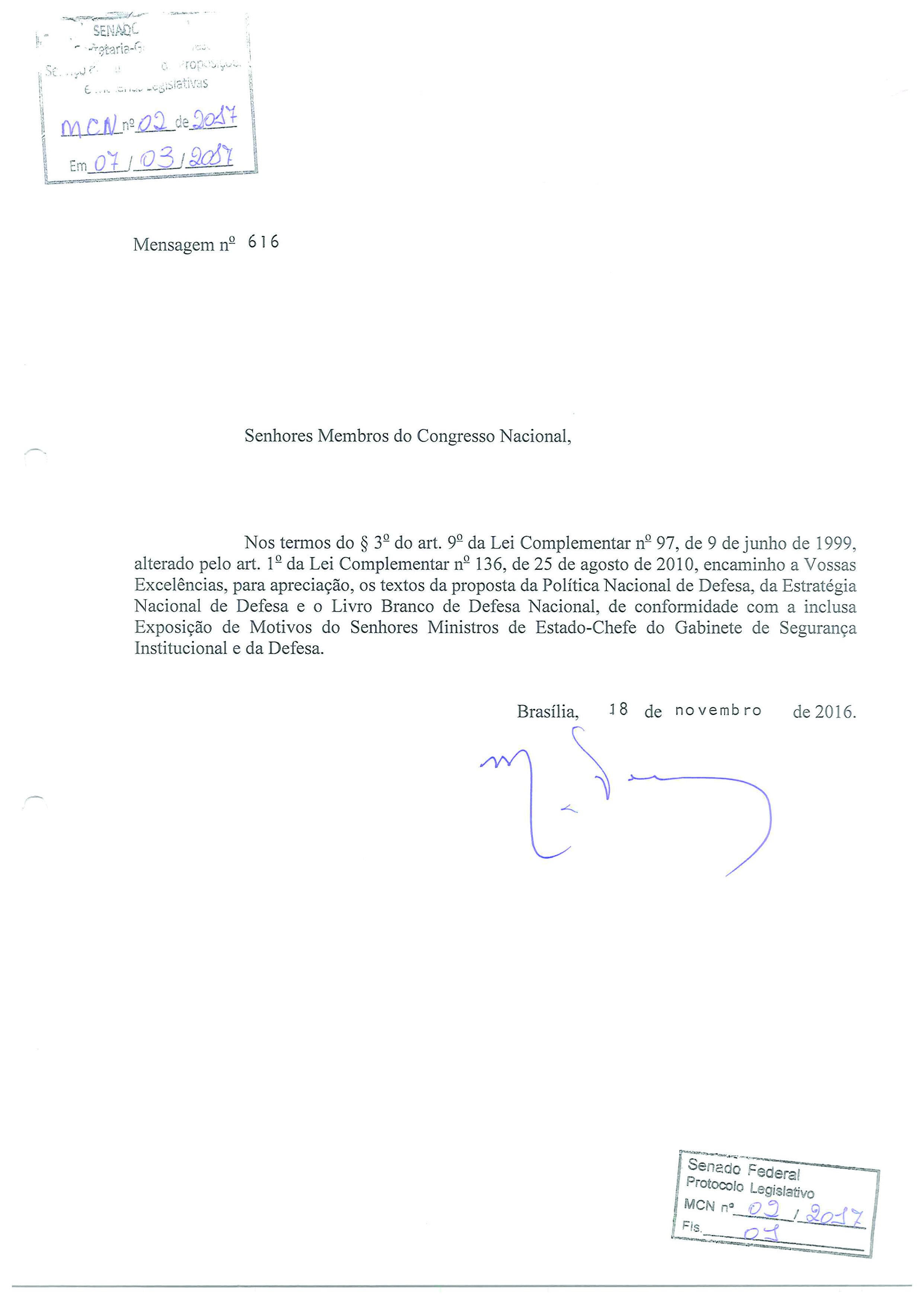 Michel Temer, documents.